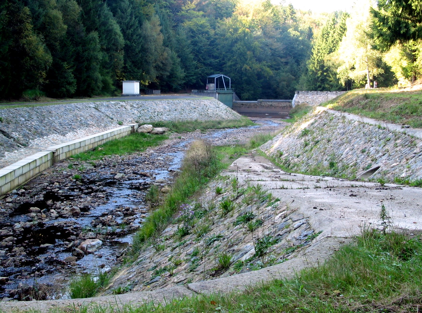 Catch basin at the 2.5 km long tunnel from the river Soor, which leads the water into the Gileppe dam, near Hestreux